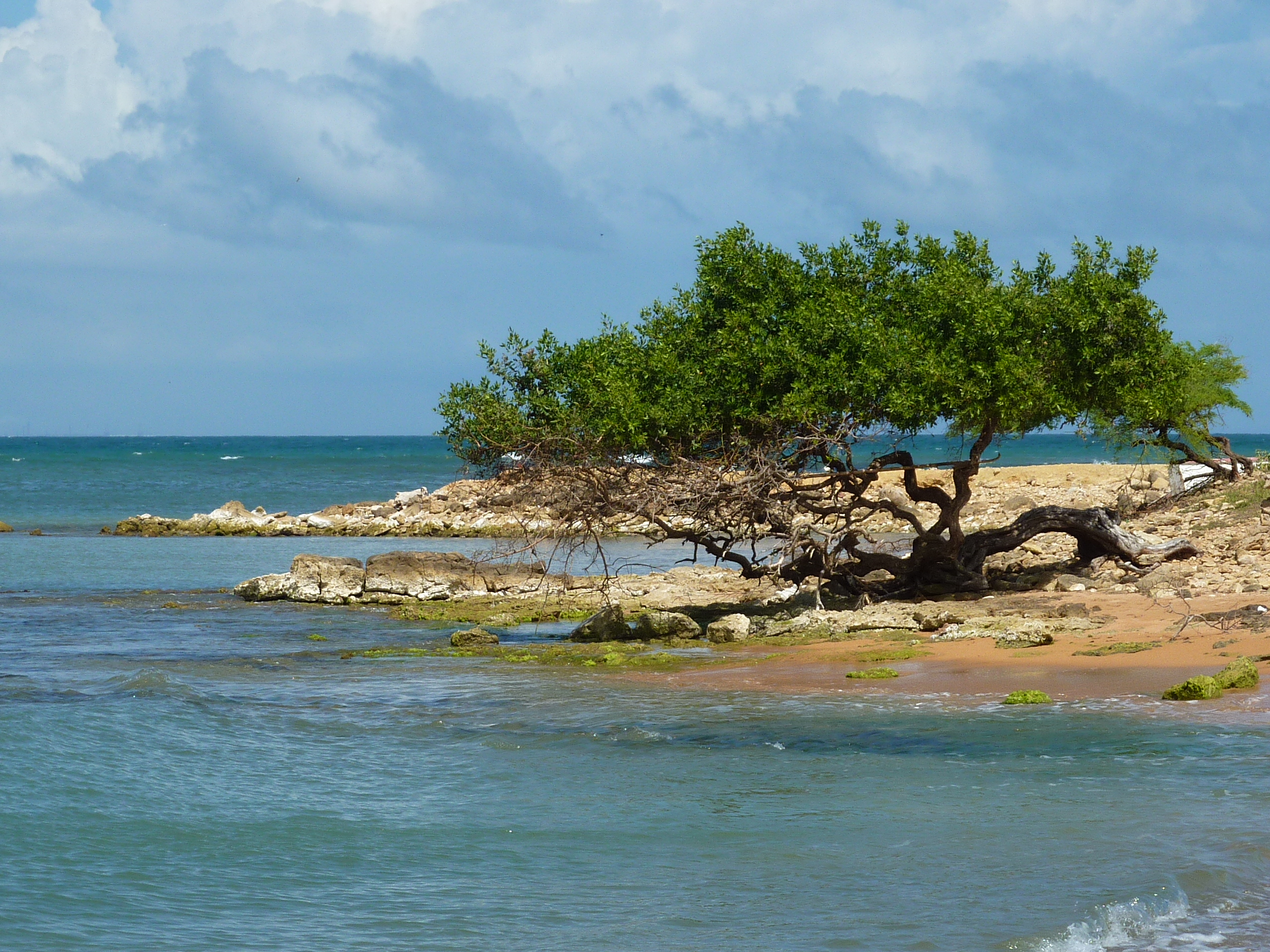 Cape San Román